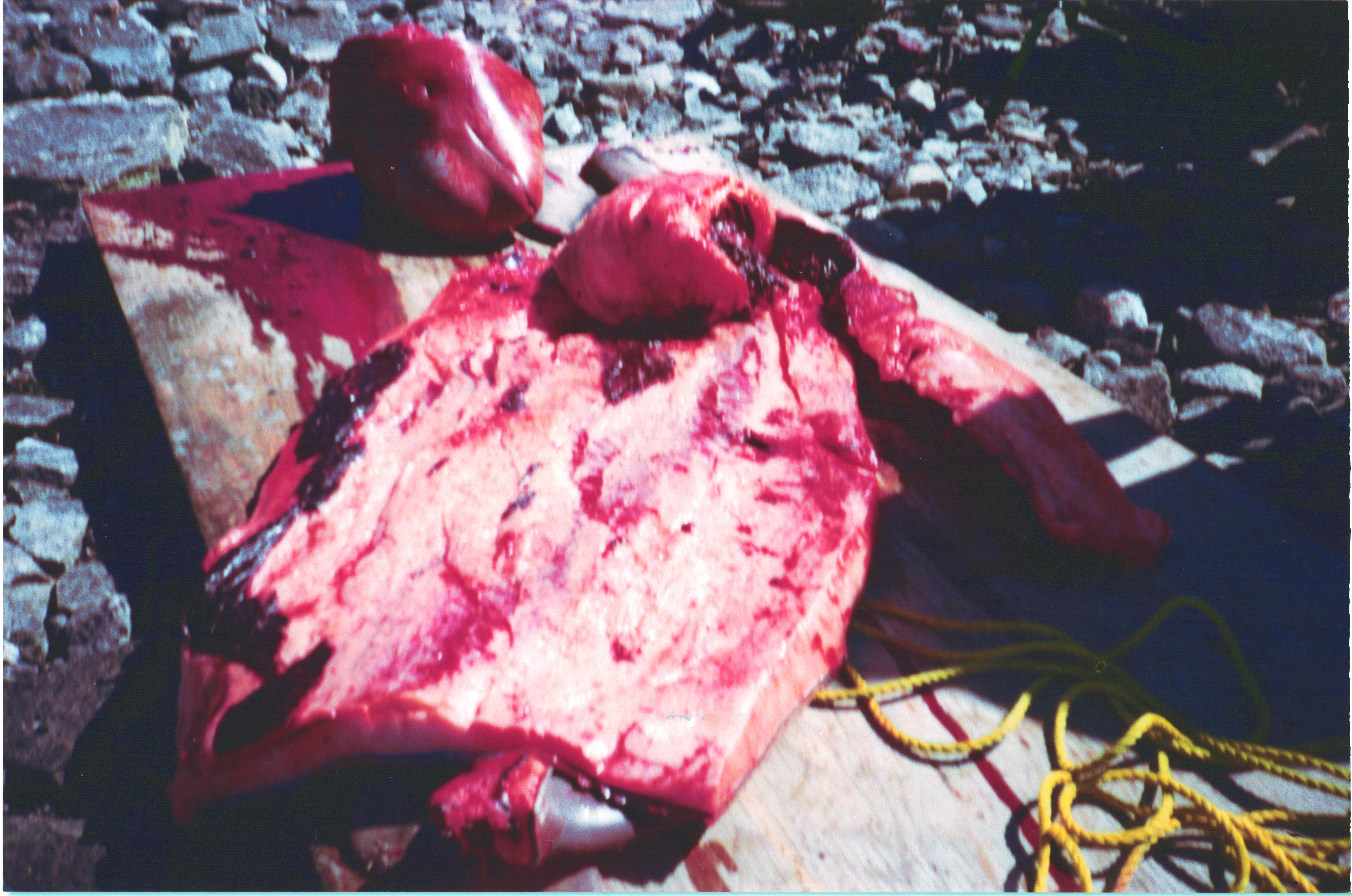 When I was seven years old and spending some time in the Inuit village of Salluit, I saw two men on the beach aiming and firing a rifle to the sea. As I walked outside my home to see what was going on, other men drove a pickup truck backwards onto the beach. One of the men flung a roped harpoon tied to the truck and pulled an infant beluga out of the sea. She was killed and butchered on the beach. Much of the village attended the event; people would grab a share of the hot flesh and eat it raw. I took this picture, as well as a small piece of the whale's skin, the muktuk, which tasted something like meat-flavoured Jello.